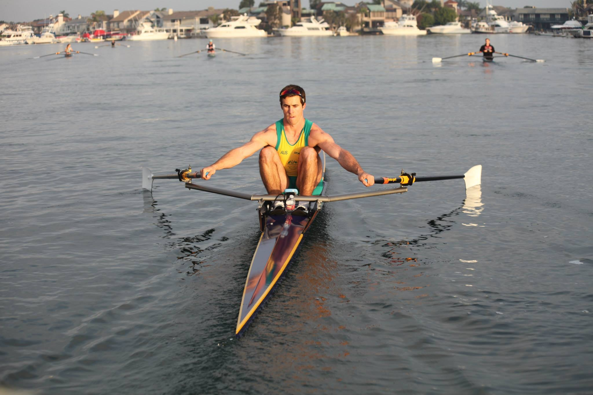 Single Sculler